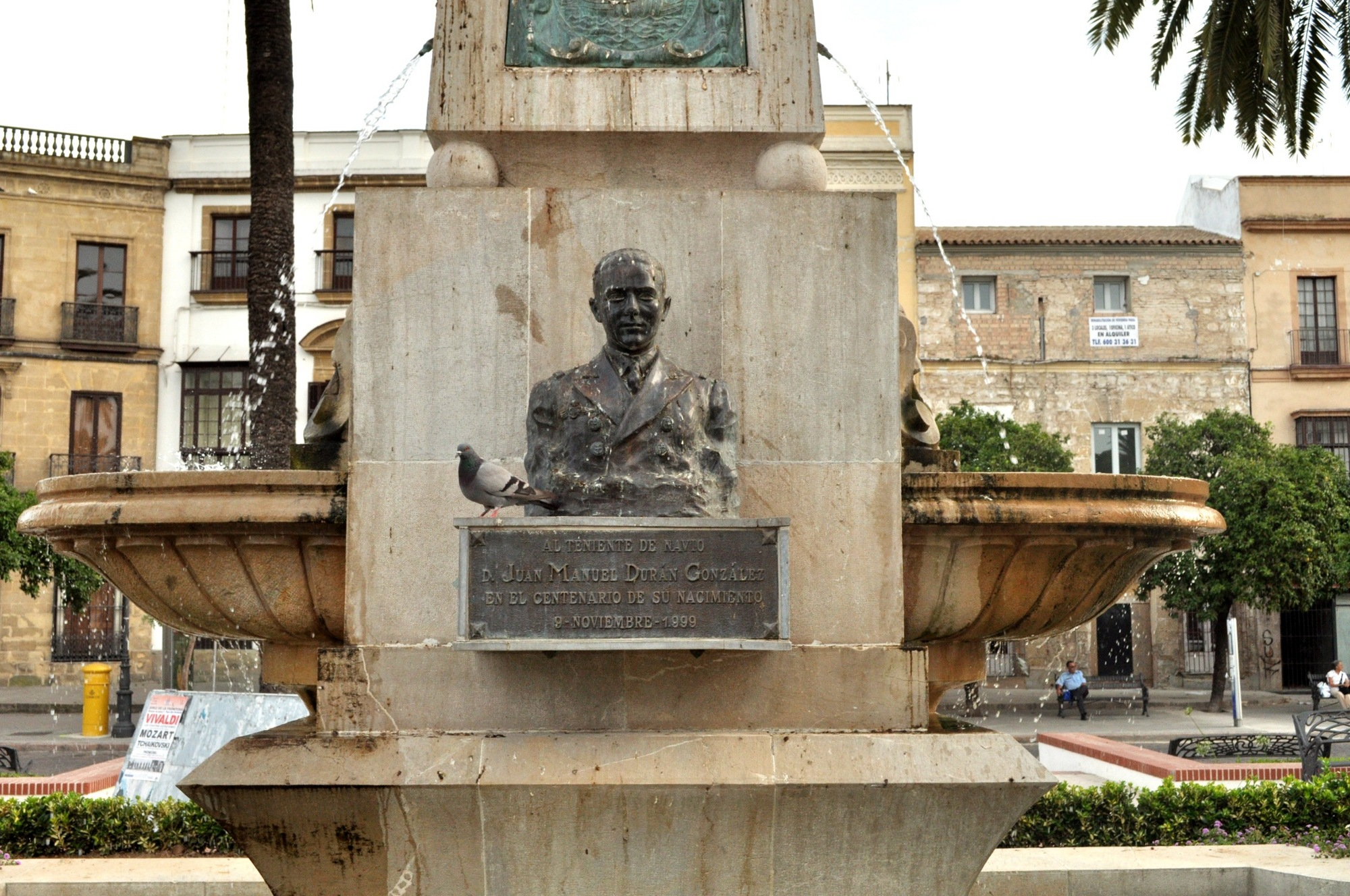 Monument to Juan Manuel Durán González, Angustias Square, Jerez